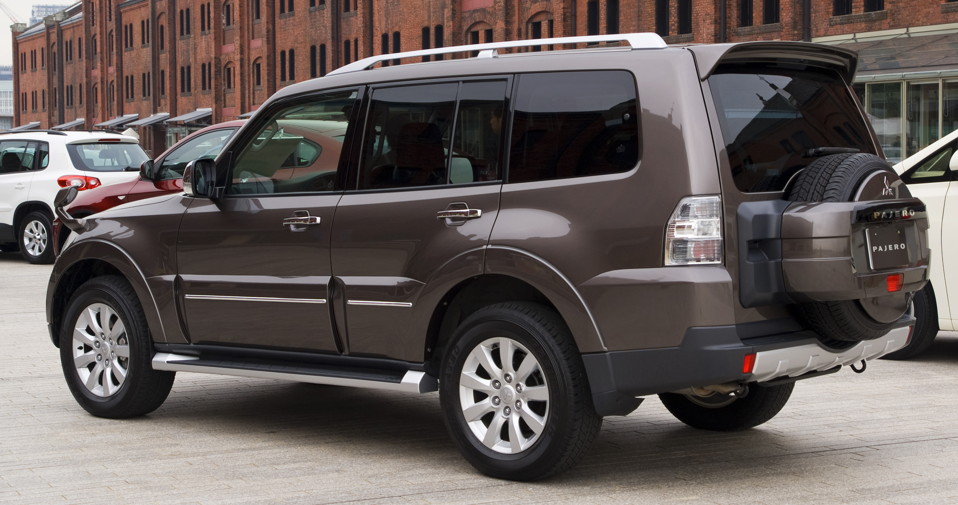 2008 Mitsubishi Pajero photographed in Yokohama Red Brick Warehouse